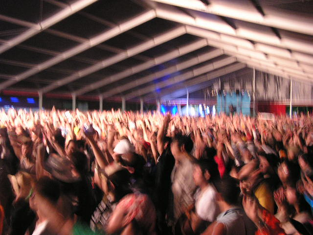 This is a photo I took of the crowd in the Red Marquee at the Fuji Rock Festival, Naeba, Niigata, Japan, in July 2004. I am giving this photo freely to wikicommons for anyone to use.